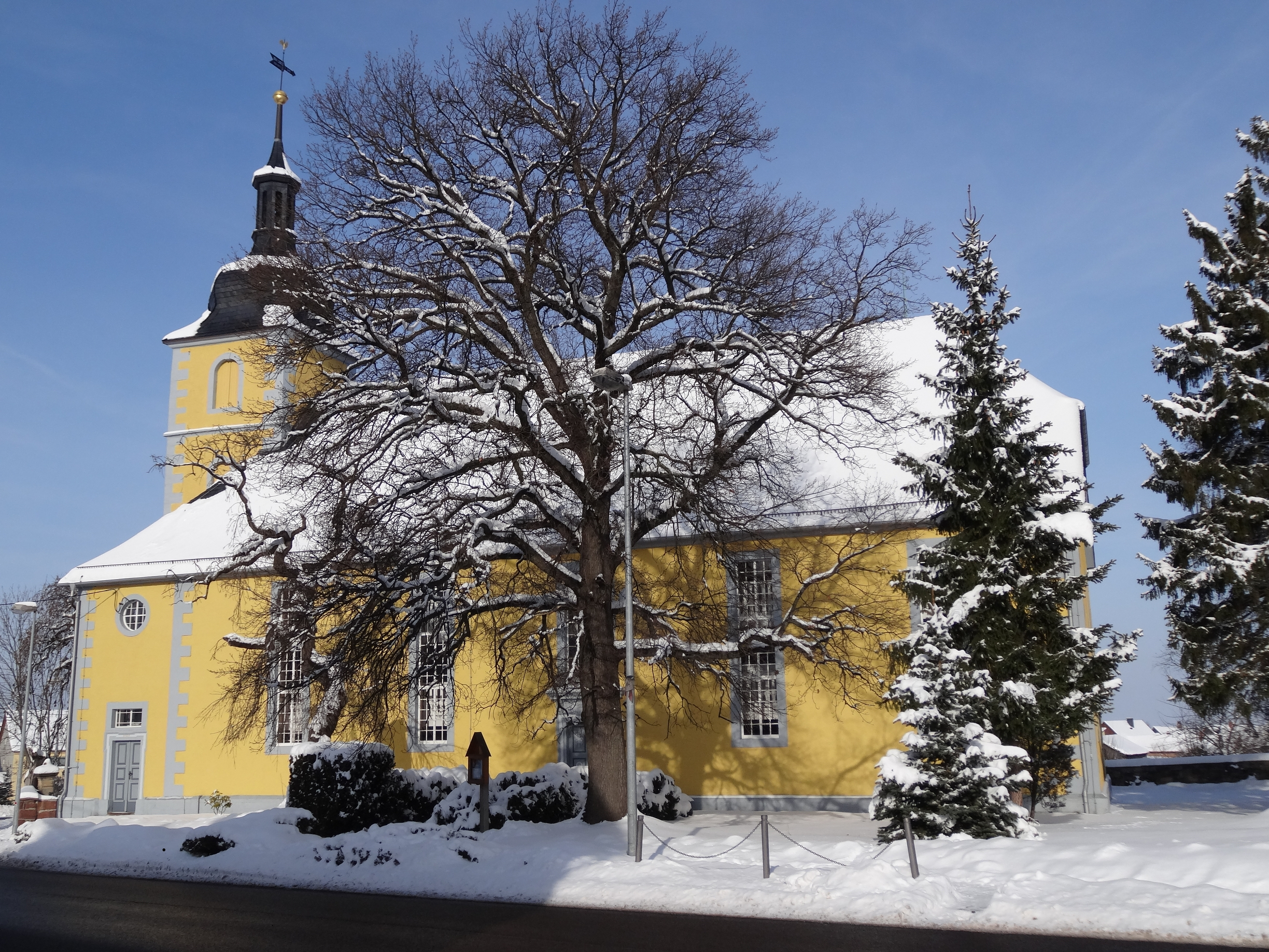 Curch in Gräfenhain, Thuringia, Germany